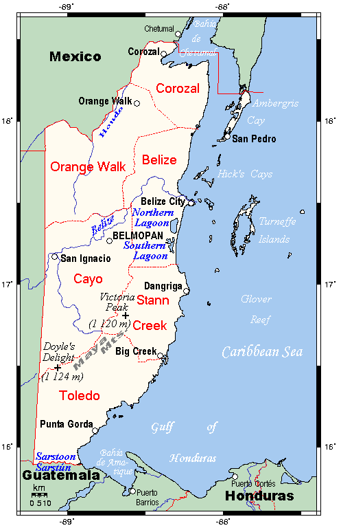 Map of Belize showing internal boundaries, main towns, highest points, and other relevant information.